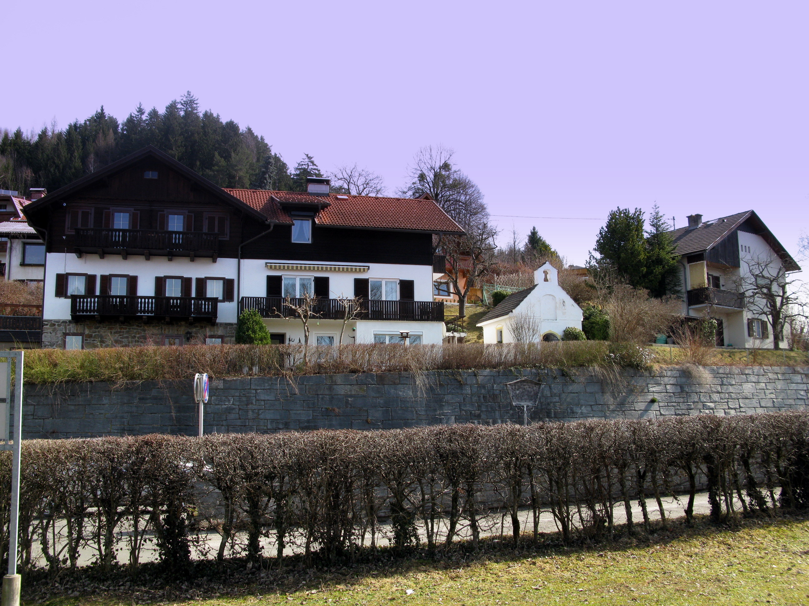 House with a chapel in Dellach am Lake Millstatt in Carinthia / Austria / EU.